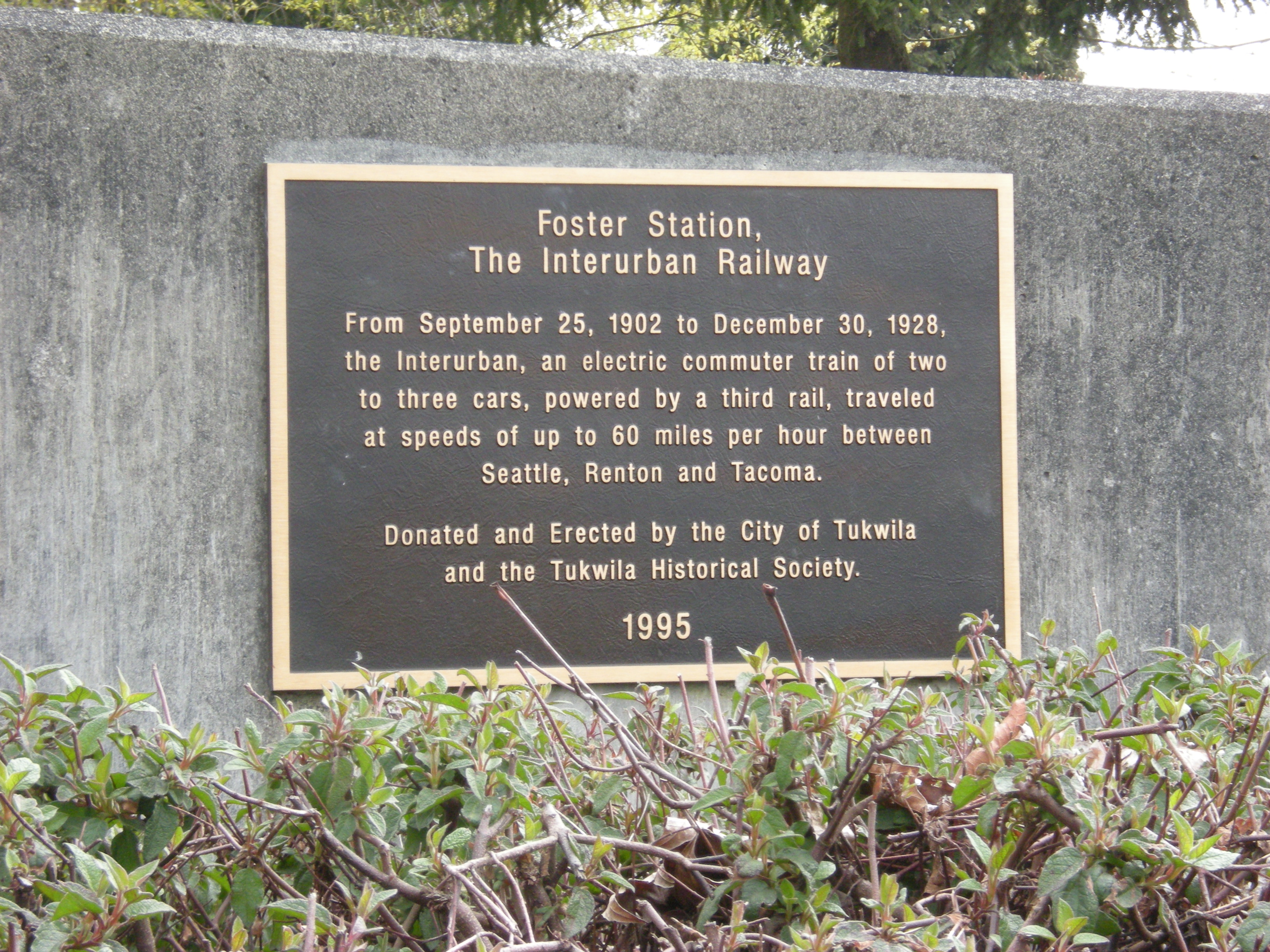 Historical marker memorializing Foster Station of the Interurban (Puget Sound Electric Railway), in Tukwila, Washington. Along the Green River Trail, across Interurban Avenue from the Tukwila Park and Ride, near the corner of South 56th Street.